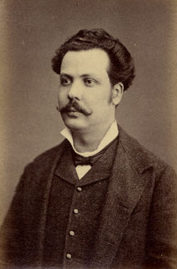 Francisco Gomes da Silva (1853-1909).